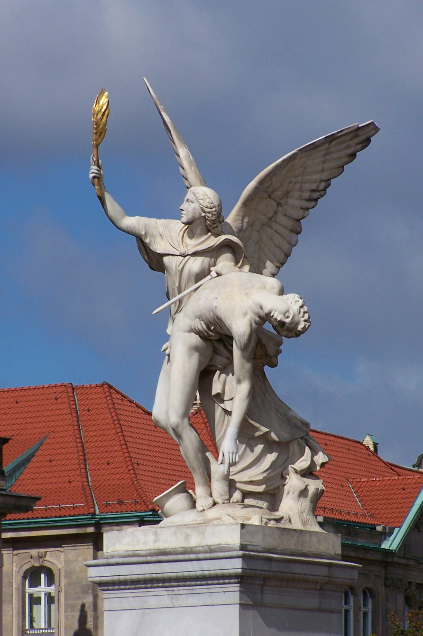 Palace Bridge in Berlin, Nike takes the fallen hero to Olympus by August Wredow, 1857.